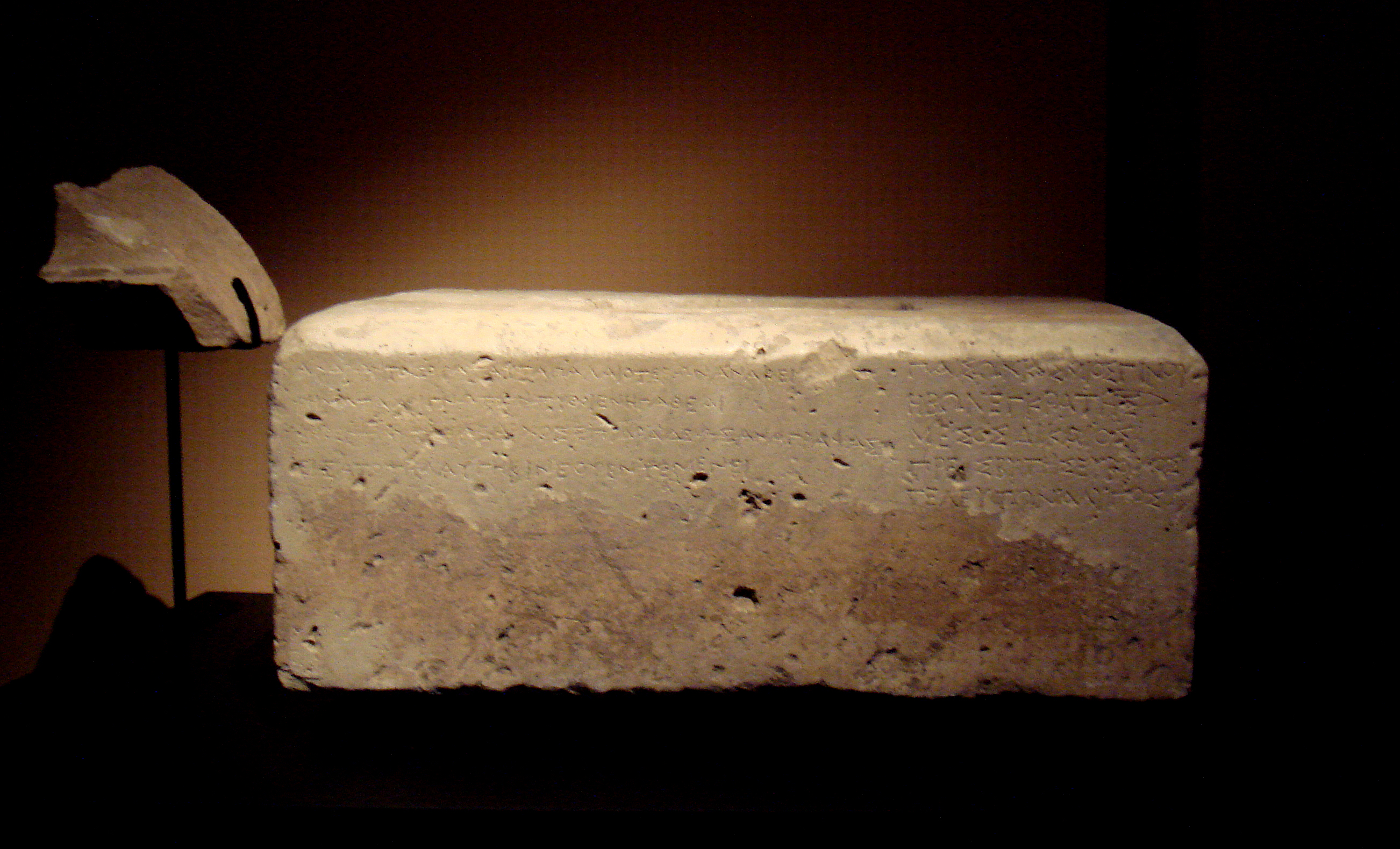 Inscription of Kineas. Ai Khanoum 2nd century BCE. Musée Guimet. Personal photograph 2006. Also see File:AiKhanoumMaxim.jpg